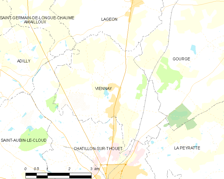 Map of French municipality Viennay